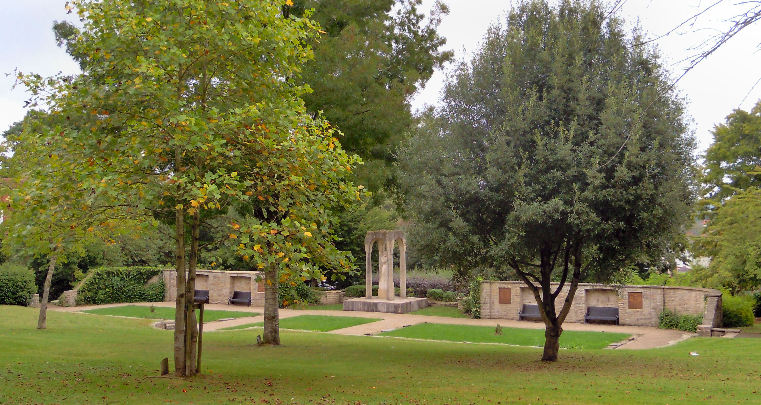 The Heroes' Shrine in Manor Park in Aldershot in Hampshire